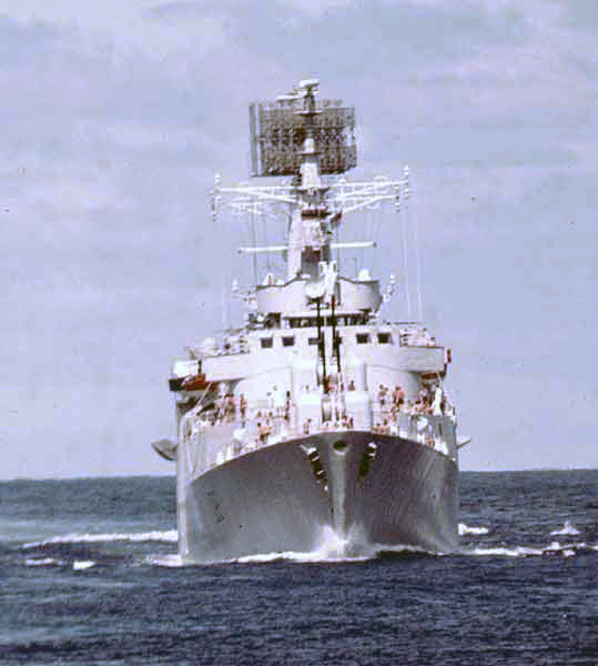 HMS Glamorgan on the Atlantic, destroyer of the Royal Navy